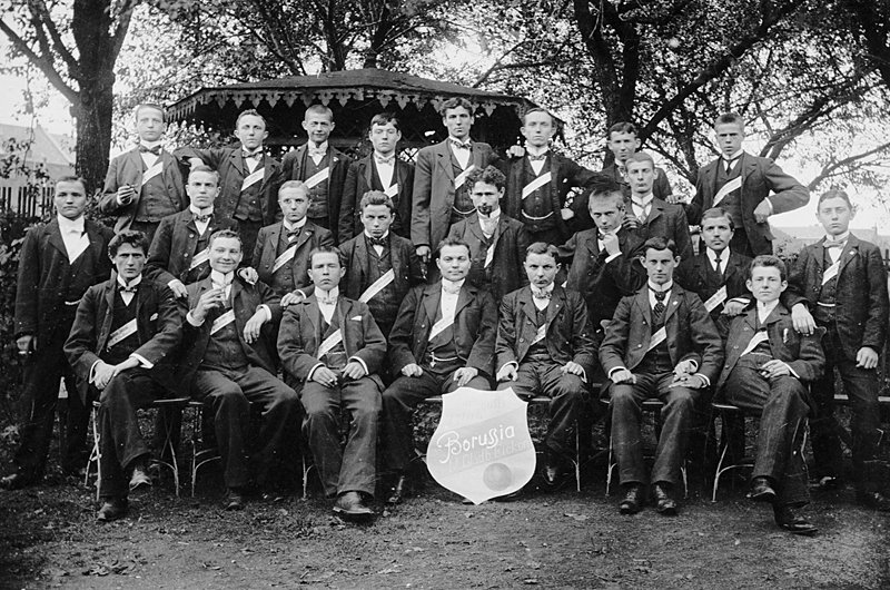 Borussia Mönchengladbach's ancient photography